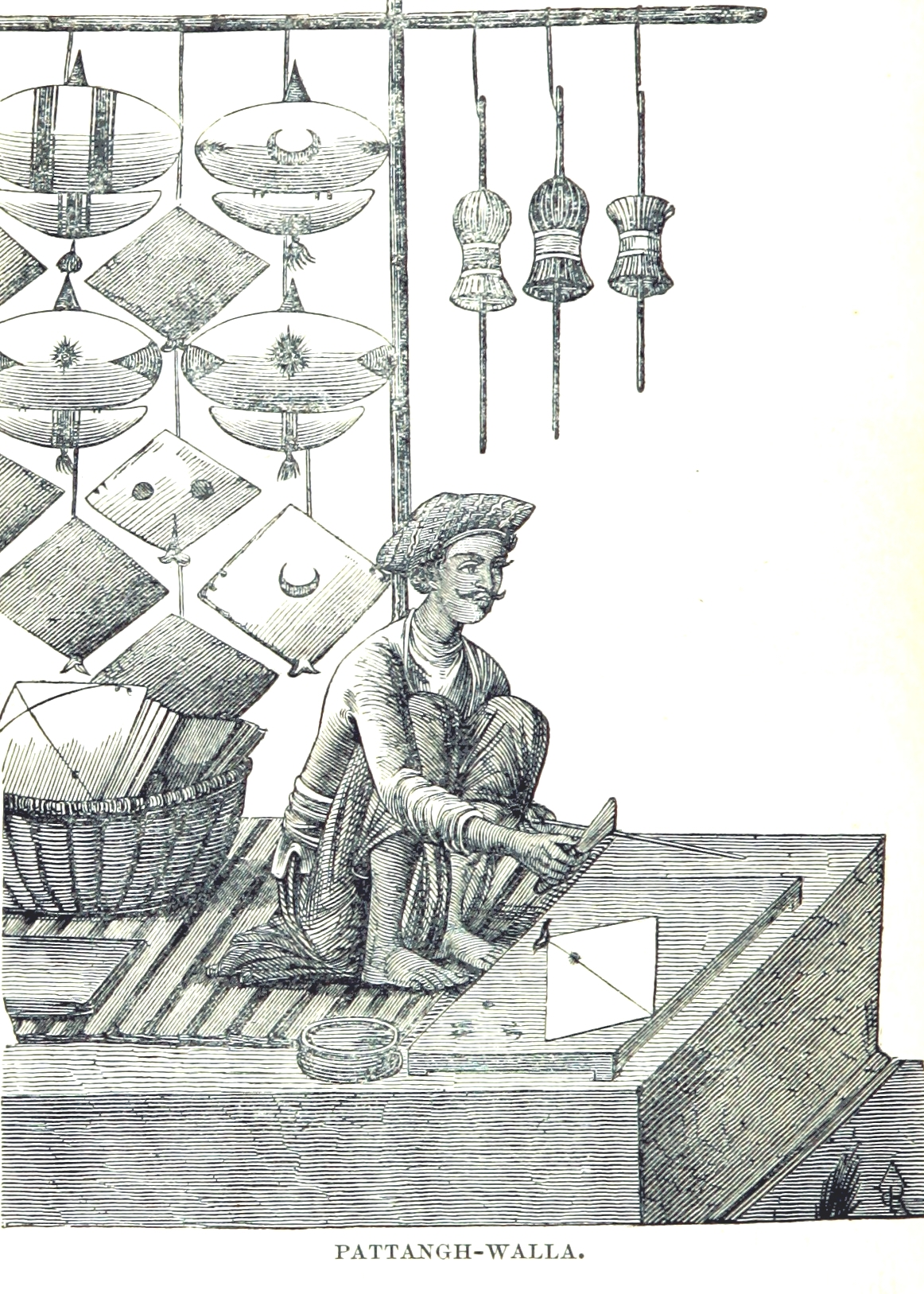 Image taken from: Title: "Travels in India, including Sinde and the Punjab; ... translated from the German, by H. E. Lloyd" Author: ORLICH, Leopold von. Contributor: LLOYD, Hannibal Evans. Shelfmark: "British Library HMNTS 1425.d.8.", "British Library OC T 11268" Page: 64 Place of Publishing: London Date of Publishing: 1845 Issuance: monographic Identifier: 002718697 Note: The colours, contrast and appearance of these illustrations are unlikely to be true to life. They are derived from scanned images that have been enhanced for machine interpretation and have been altered from their originals. If you wish to purchase a high quality copy of the page that this image is drawn from, please order it here. Please note that you will need to enter details from the above list - such as the shelfmark, the page, the book's volume and so on - when filling out your order. Explore: Find this item in the British Library catalogue, 'Explore'. Open the page in the British Library's itemViewer (page: 64) Download the PDF for this book Click here to see all the illustrations in this book and click here to browse other illustrations published in books in the same year. Please click on the tags shown on the right-hand side for other ways to browse the illustrations.